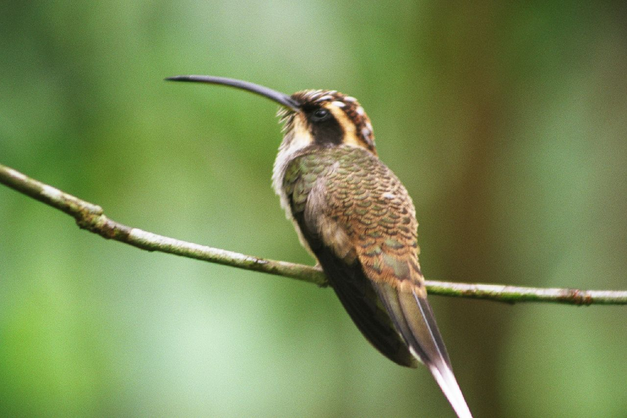 Scale-throated Hermit (Phaethornis eurynome) at Parque das Aves, Brazil.